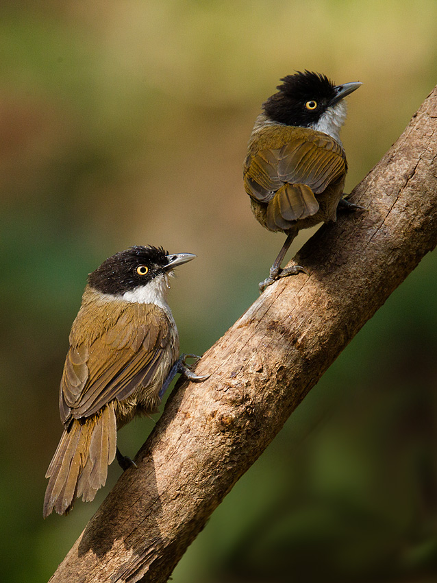 A pair of dark fronted babblers at Dandeli, India